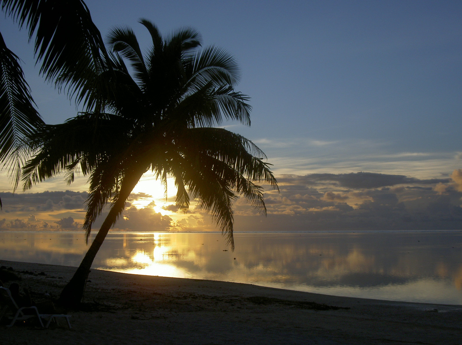 A sunset on Aitutaki in the Cook Islands with low Cumulus and Stratocumulus and high Cirrostratus clouds.